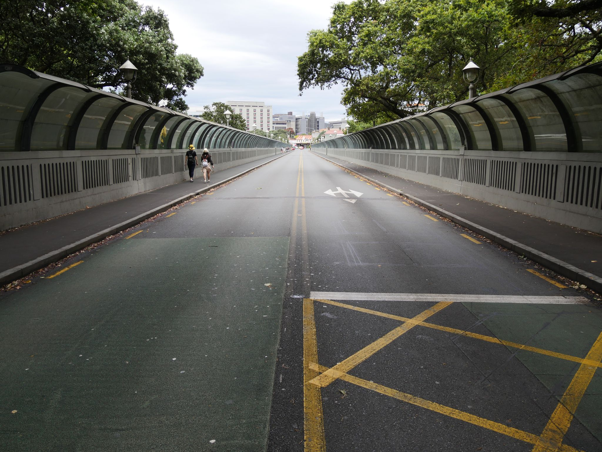 Grafton Bridge, Auckland, New Zealand (road, direction to the west), bridge build 1910